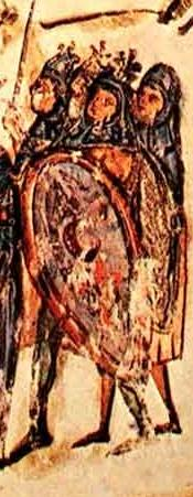 Byzantine miniature from the Madrid Skylitzes, 12th century.